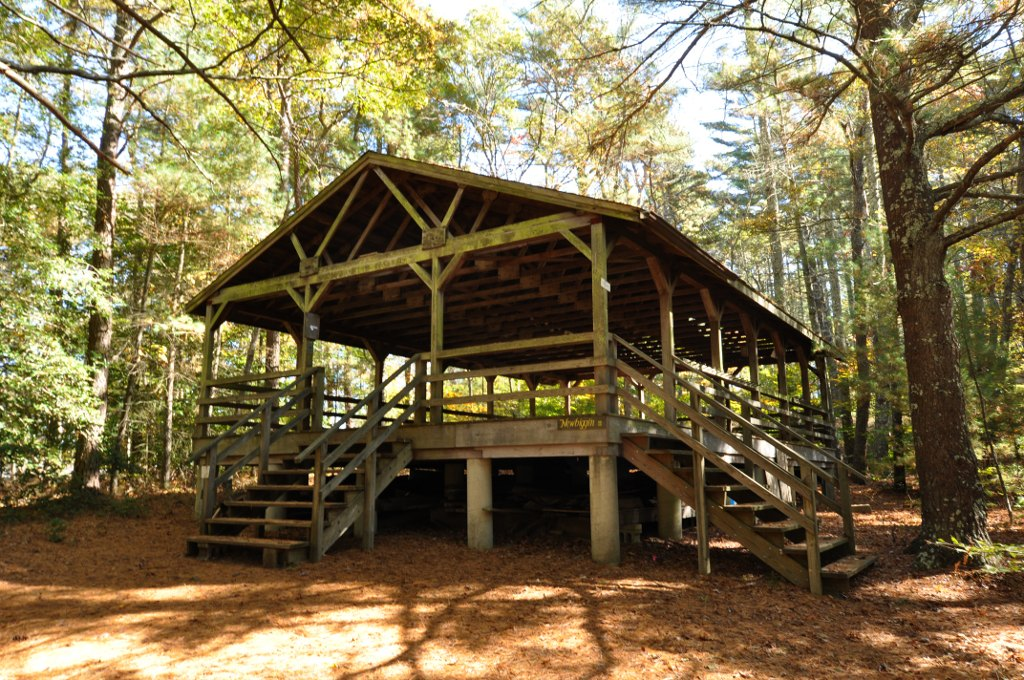 Newbiggin, one of four dance pavilions at Pinewoods Camp, Plymouth, Massachusetts.